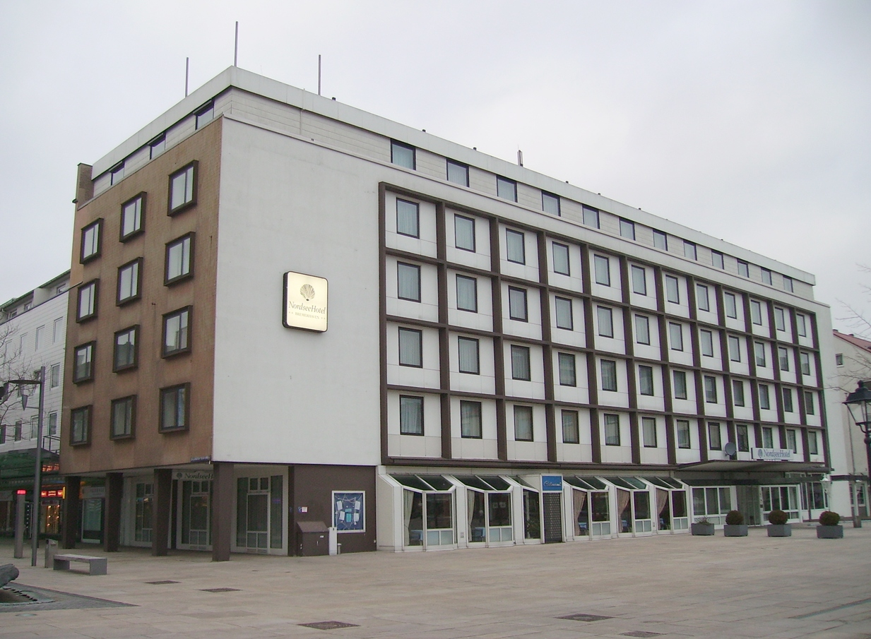 The former "Nordsee-Hotel" ("North Sea Hotel") in Bremerhaven, Germany